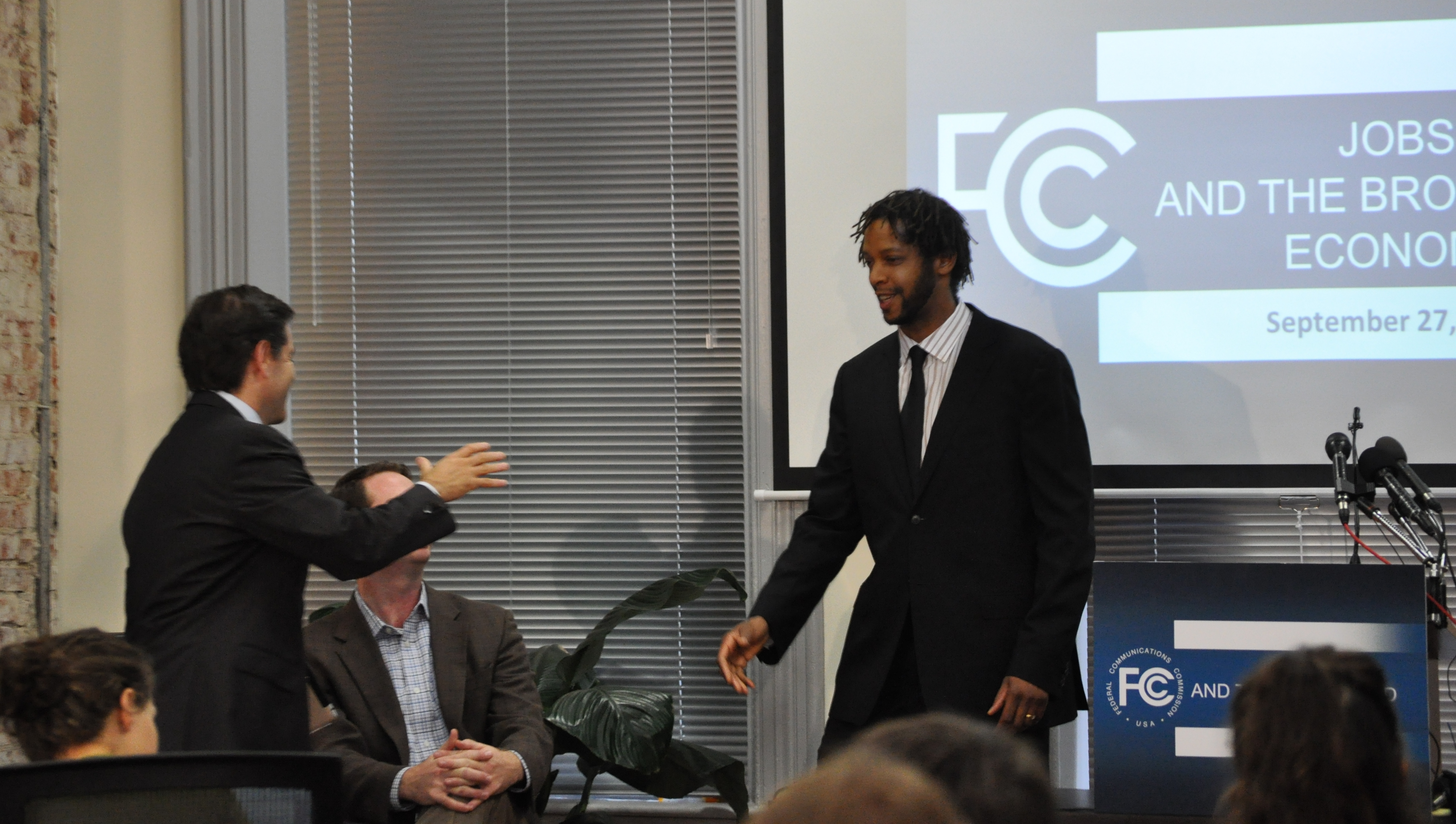 FCC Chairman Genachowski meeting Warren Brown, Founder and Owner of CakeLove